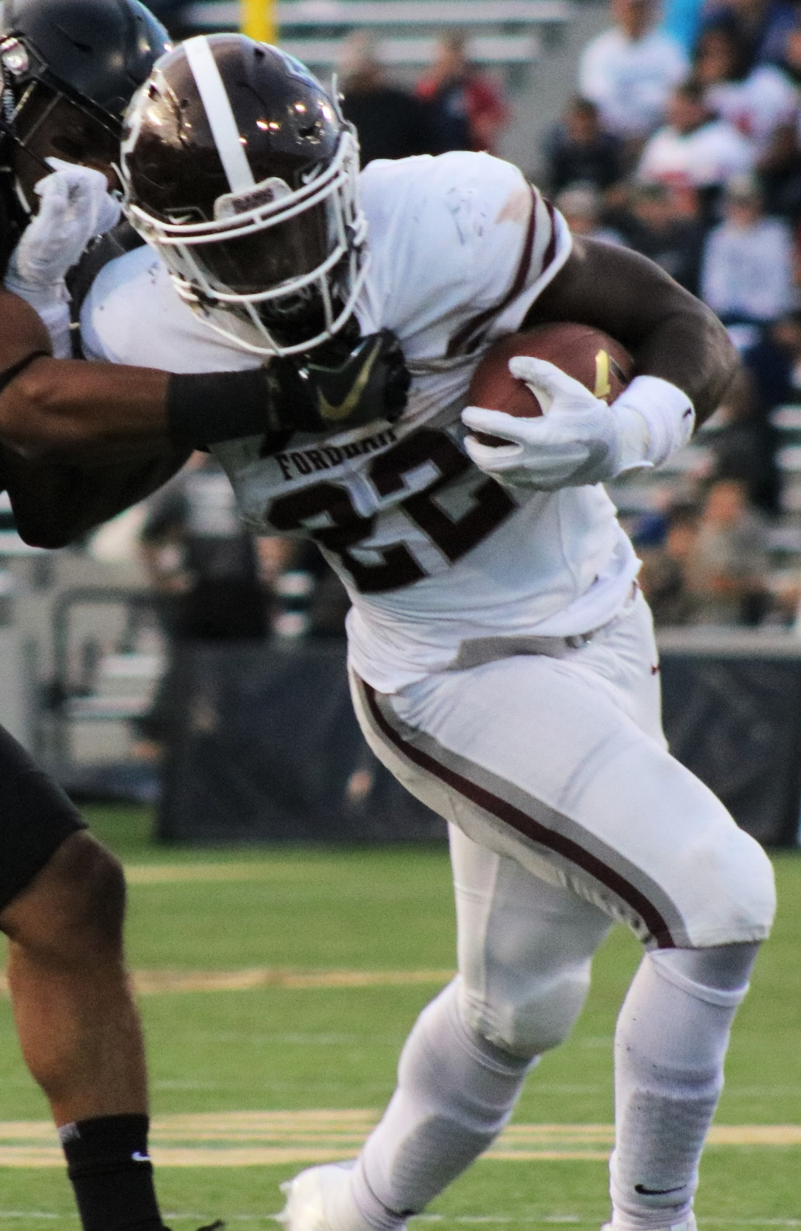 Chase Edmonds carries the ball for Fordham during a 2019 game against Army at Michie Stadium in West Point in 2017.